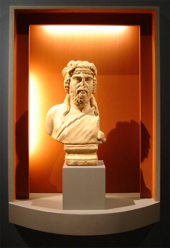 Marble bust of god Dionysus, the oldest example of worship of the god in Drama region, image from the Archaeological Museum, Drama, East Macedonia, Greece